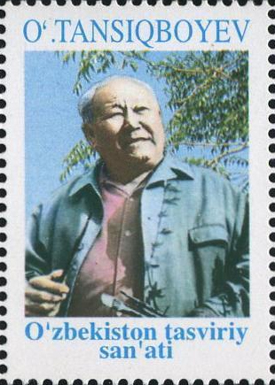 Uzbekistan 319 ab/label, MNH. Artwork of Oral Tansiqboyev,2001.